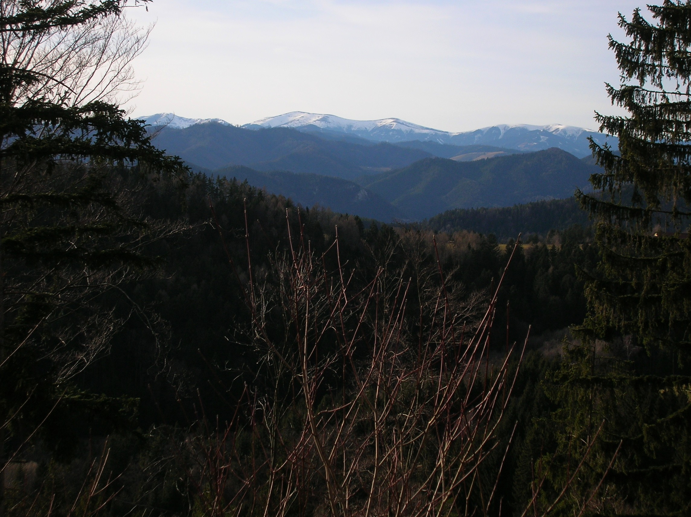 Plesch, to the left, Gamskogel, to the right, Gleinalpe, snow-covered